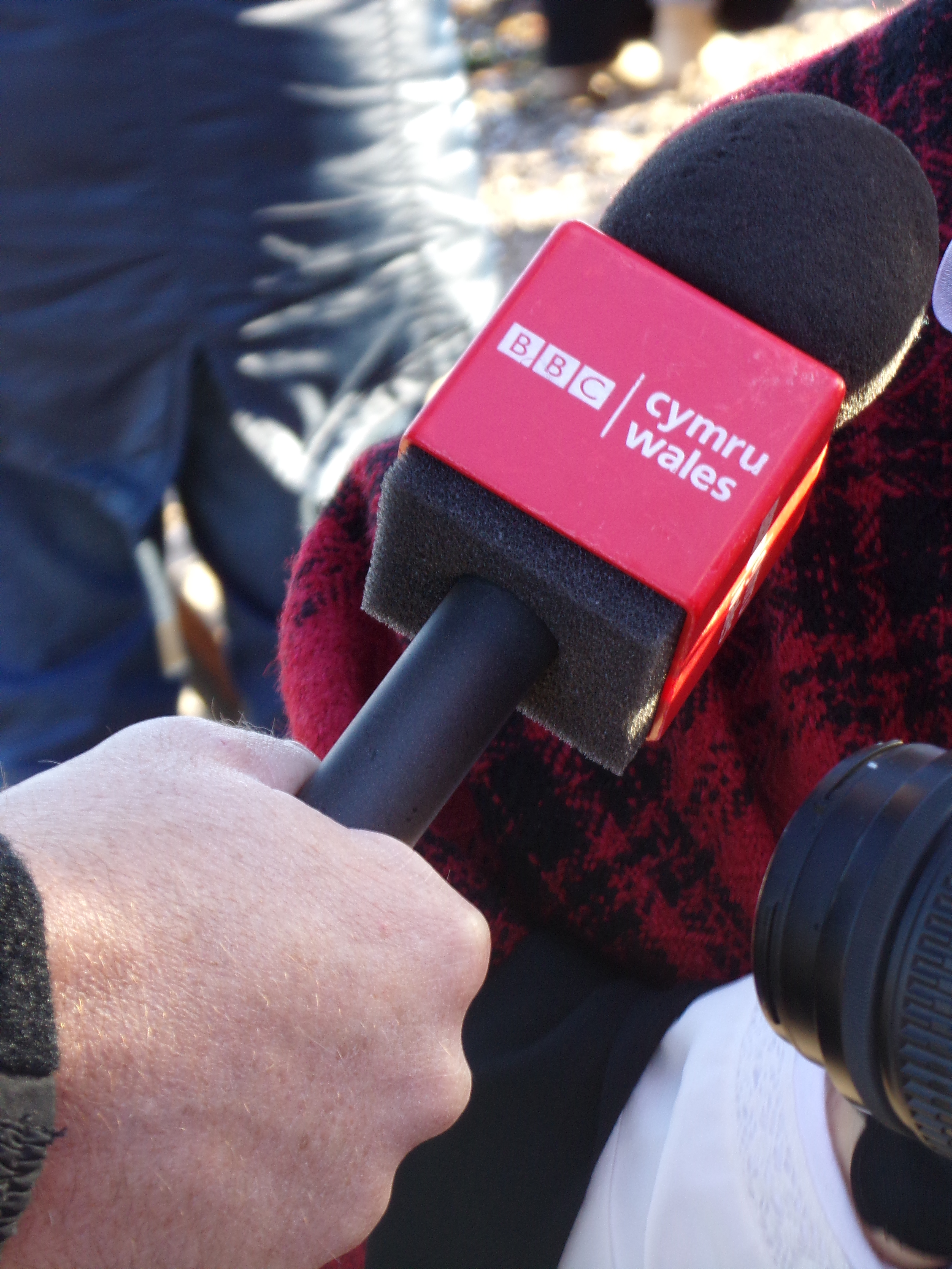 BBC Wales present in the sesquicentennial of the Welsh colony in Chubut, Patagonia, Argentina.